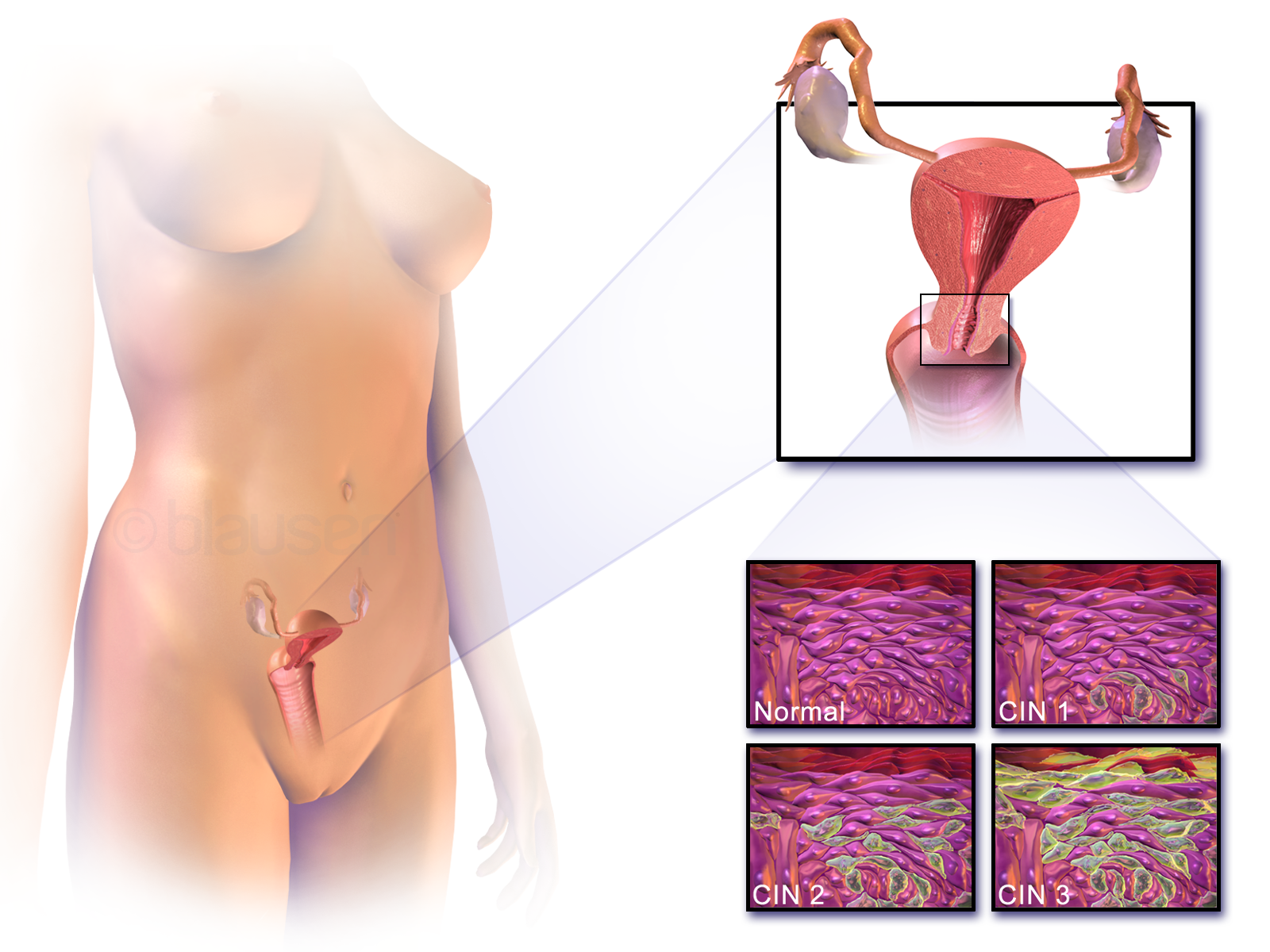 Cervical Dysplasia. See a full animation of this medical topic.